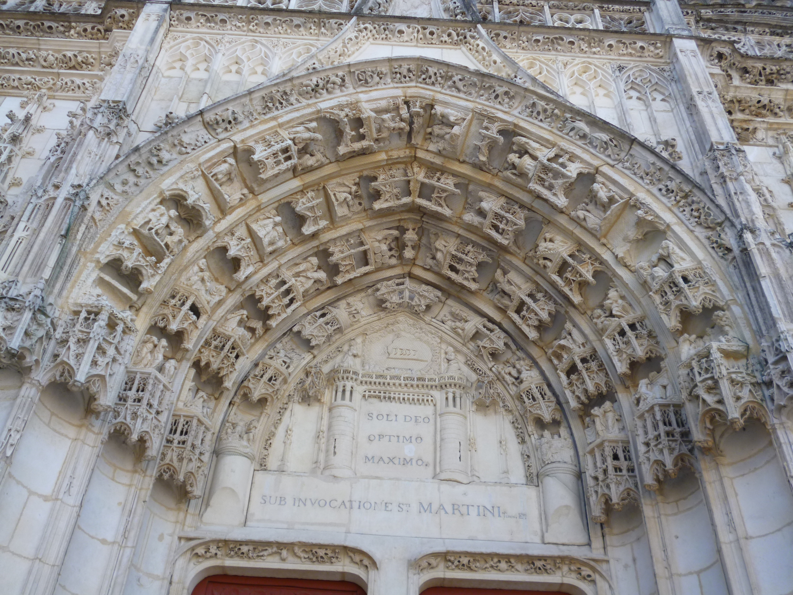 Tympan of the Saint-Martin church in Clamecy, France